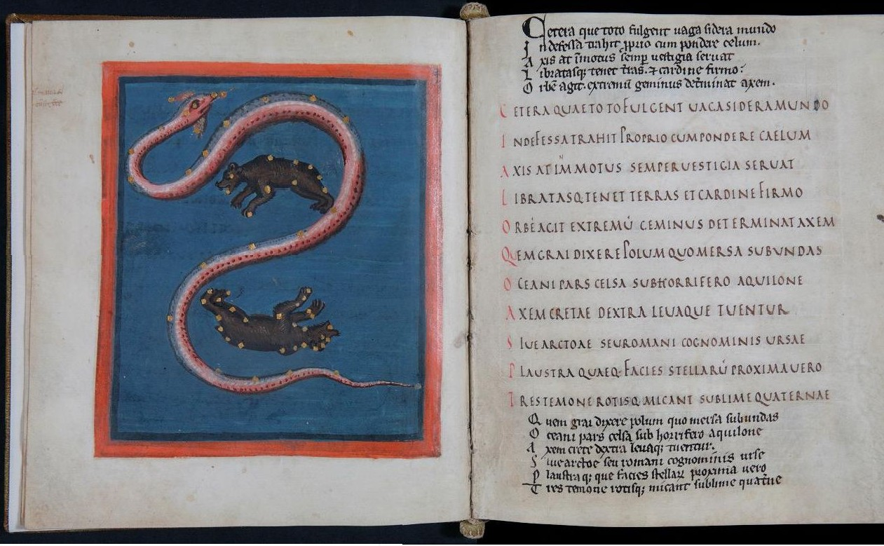 Fol. 3v and 4r. Arcturus and Serpens